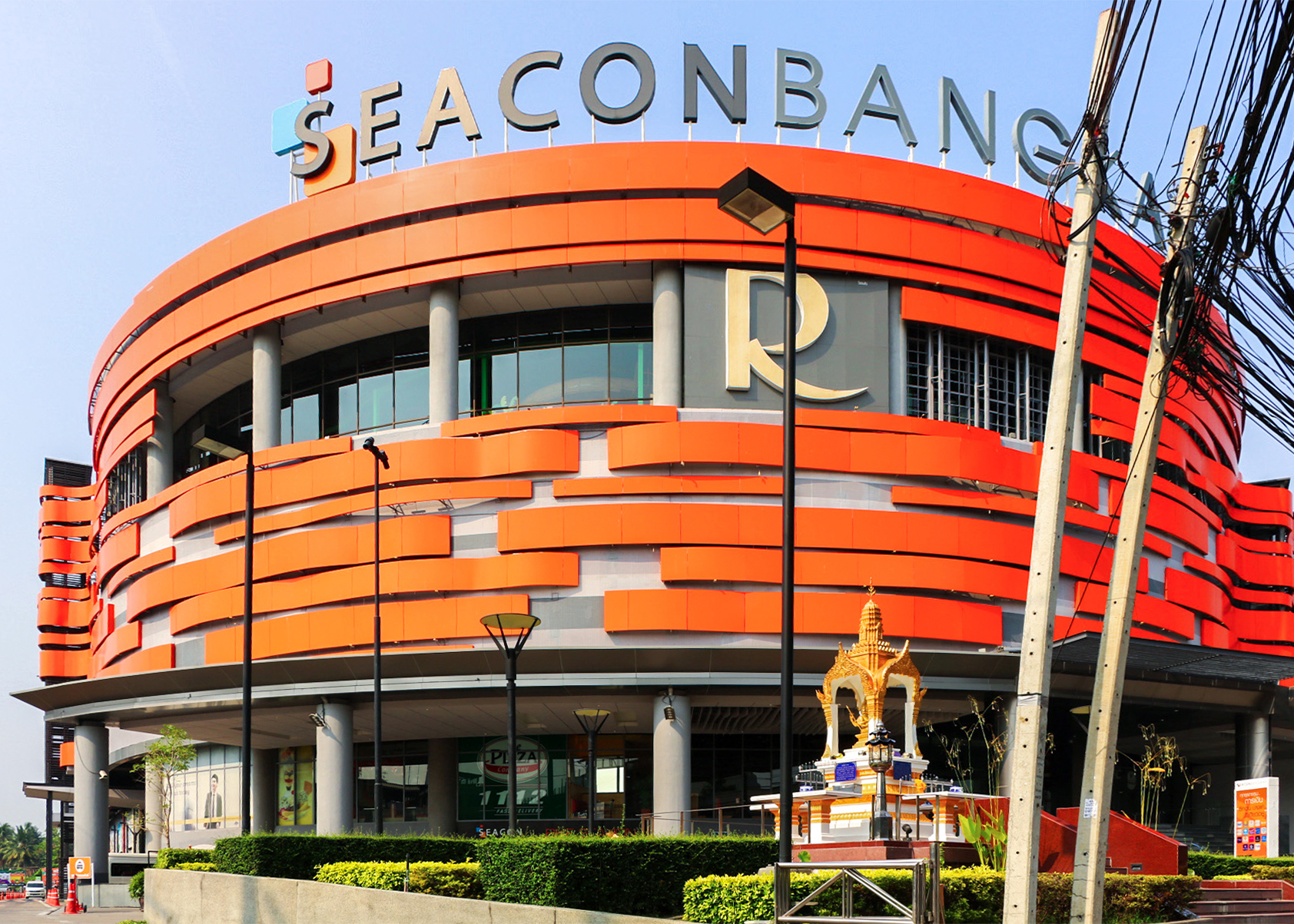 Exterior view of shopping mall named "Seacon Bangkae", Thailand